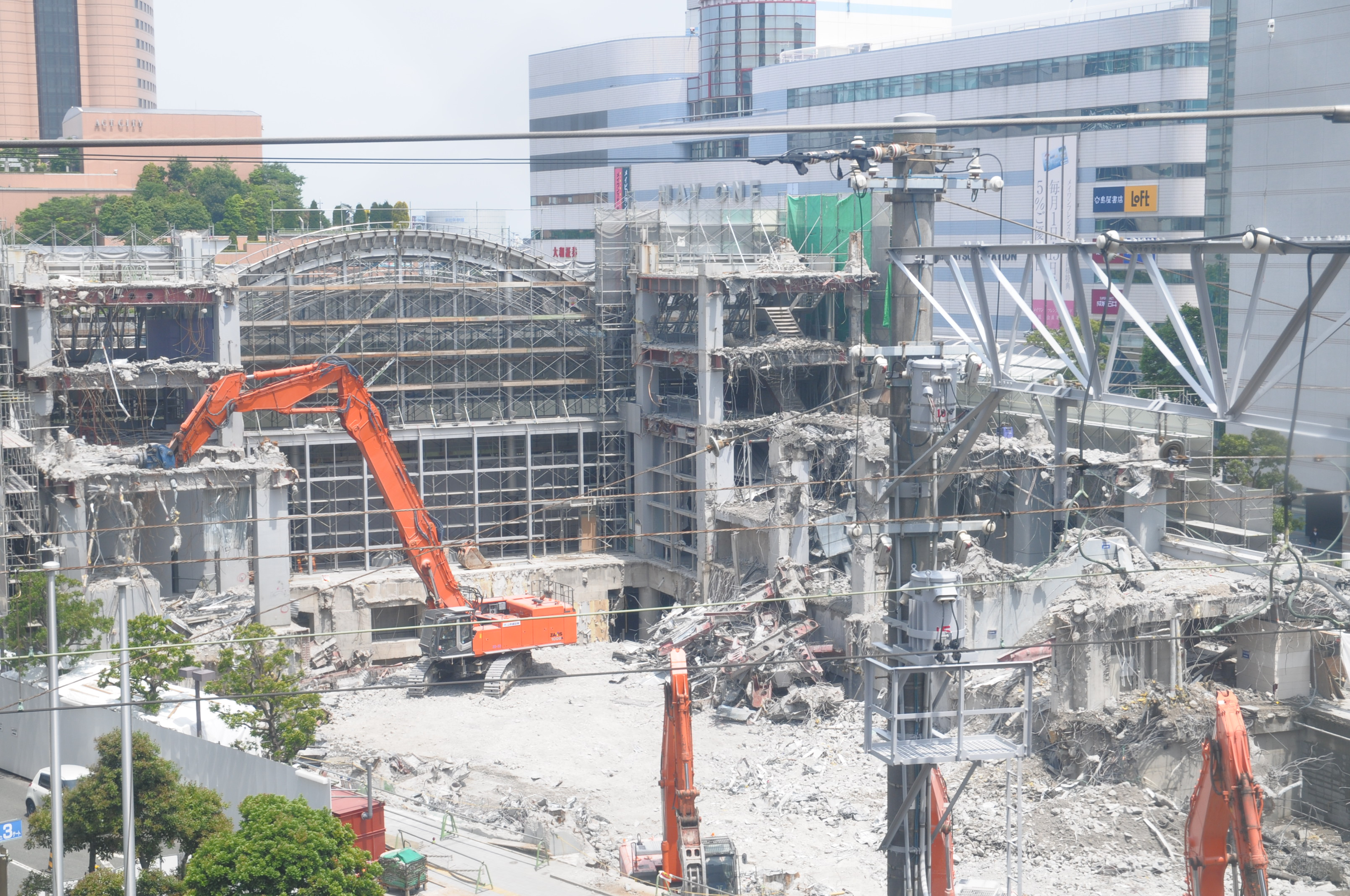 FORTE being demolished, Hamamatsu, Shizuoka